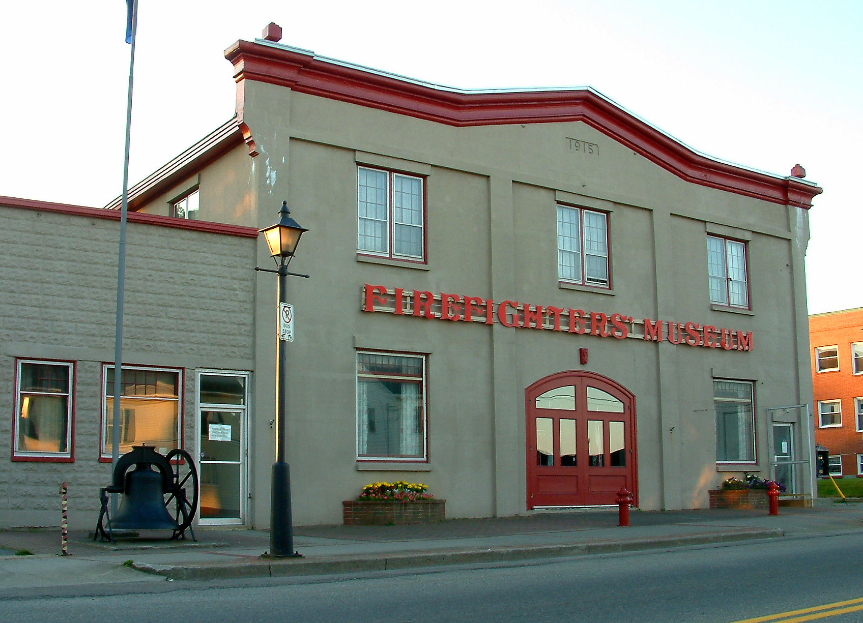 Nova Scotia Firefighter's Museum, Yarmouth, NS